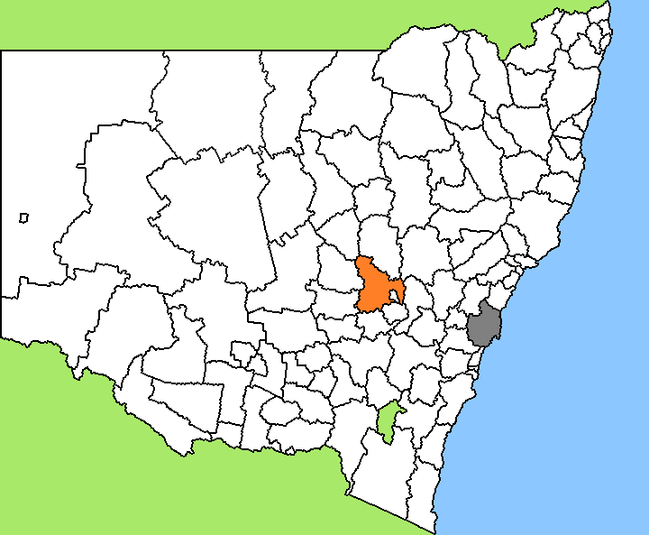 Map of New South Wales/Australia, LGA of Cabonne Shire highlighted